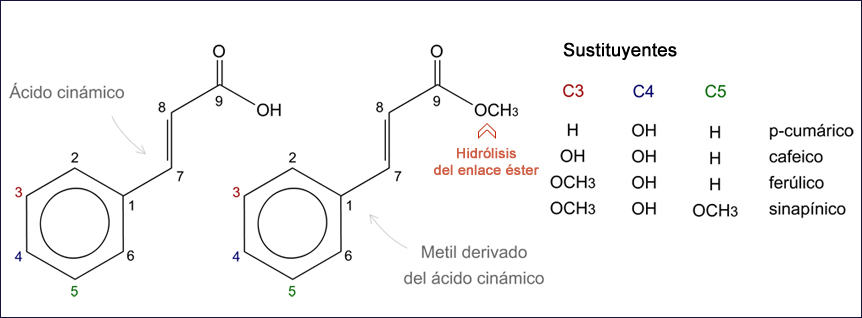 Hydroxycinnamic methyl derivated